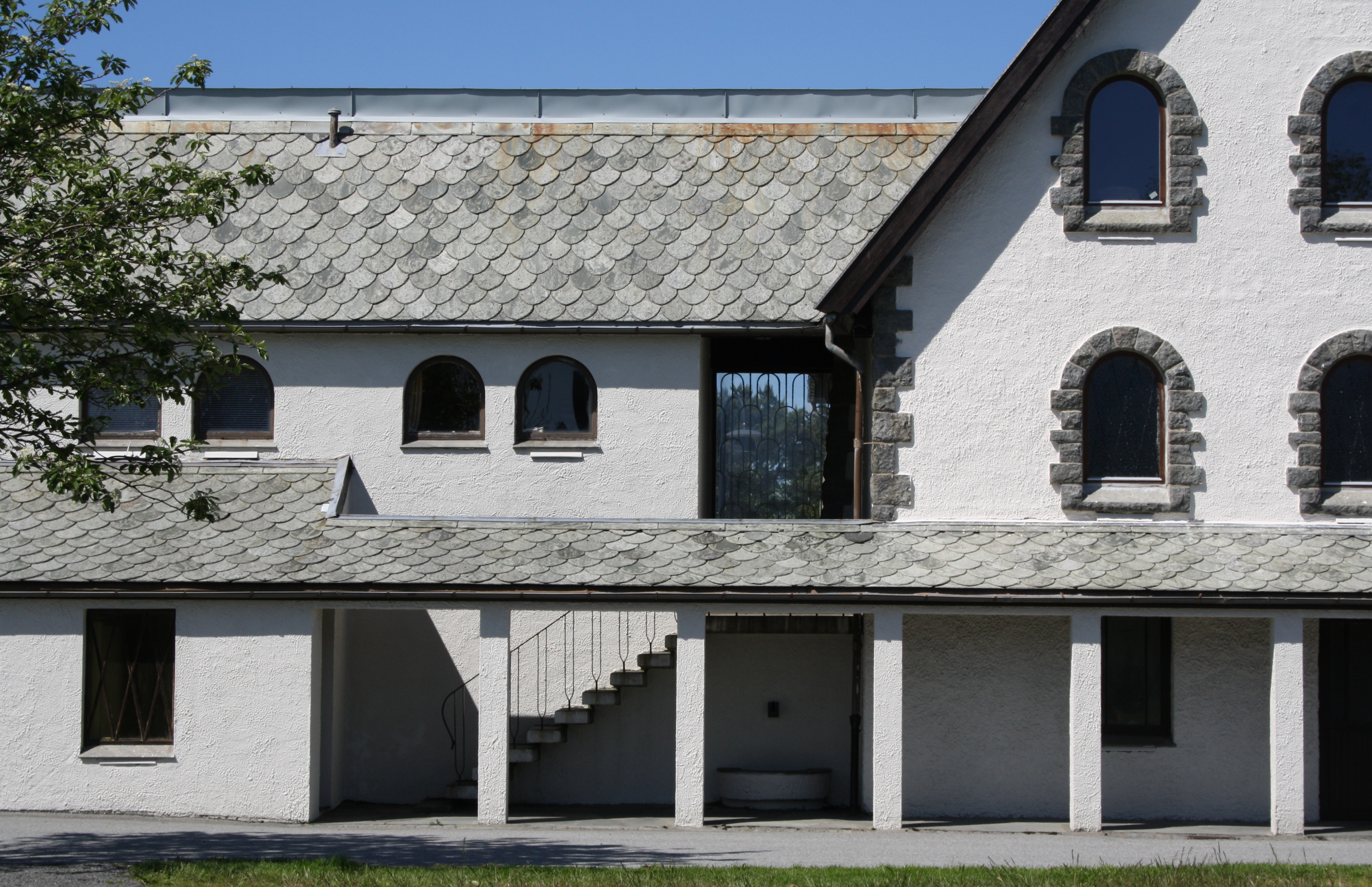 Kapell Vår Frelsers gravlund